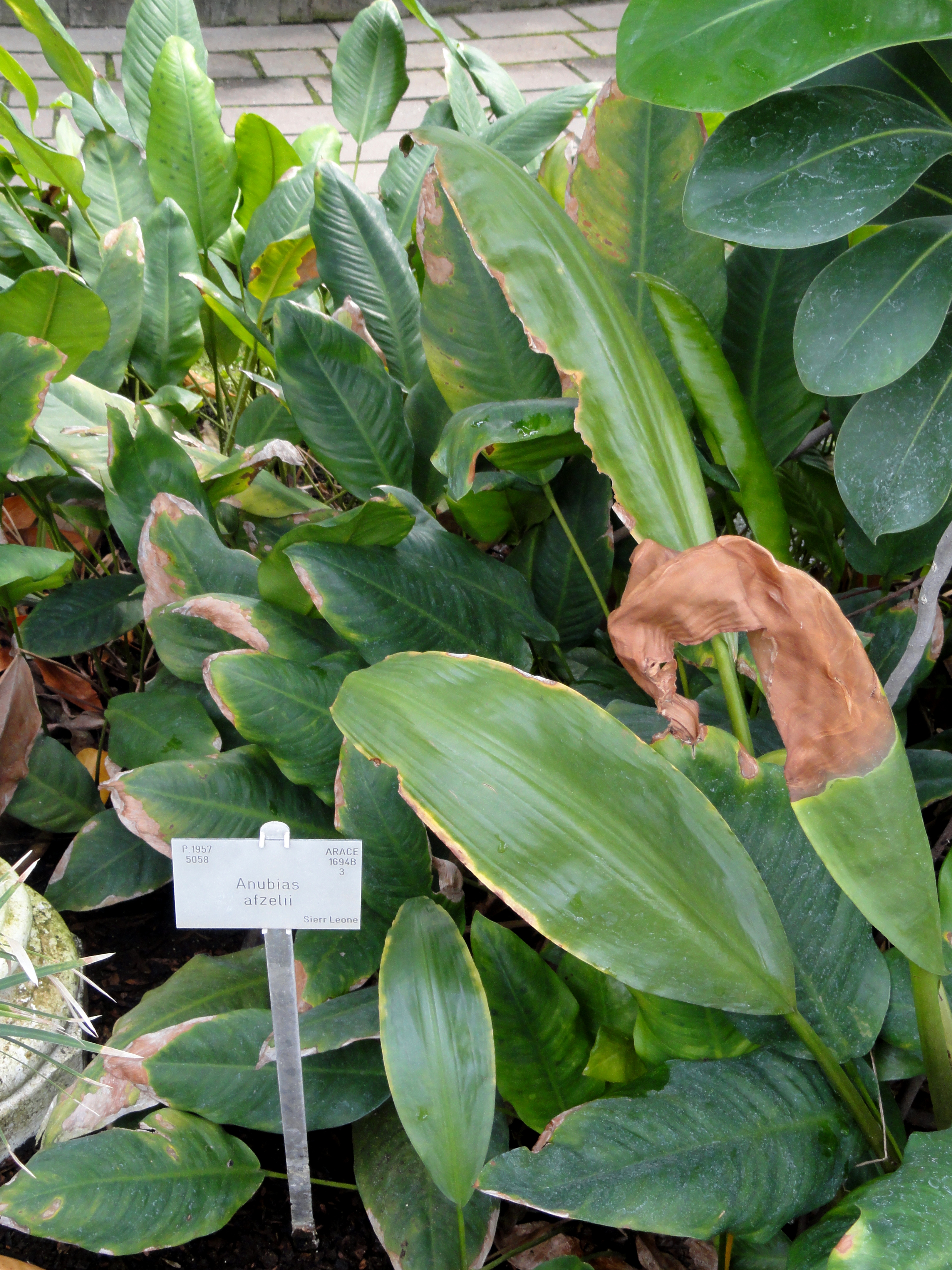 Botanical specimen in the University of Copenhagen Botanical Garden, Copenhagen, Denmark.